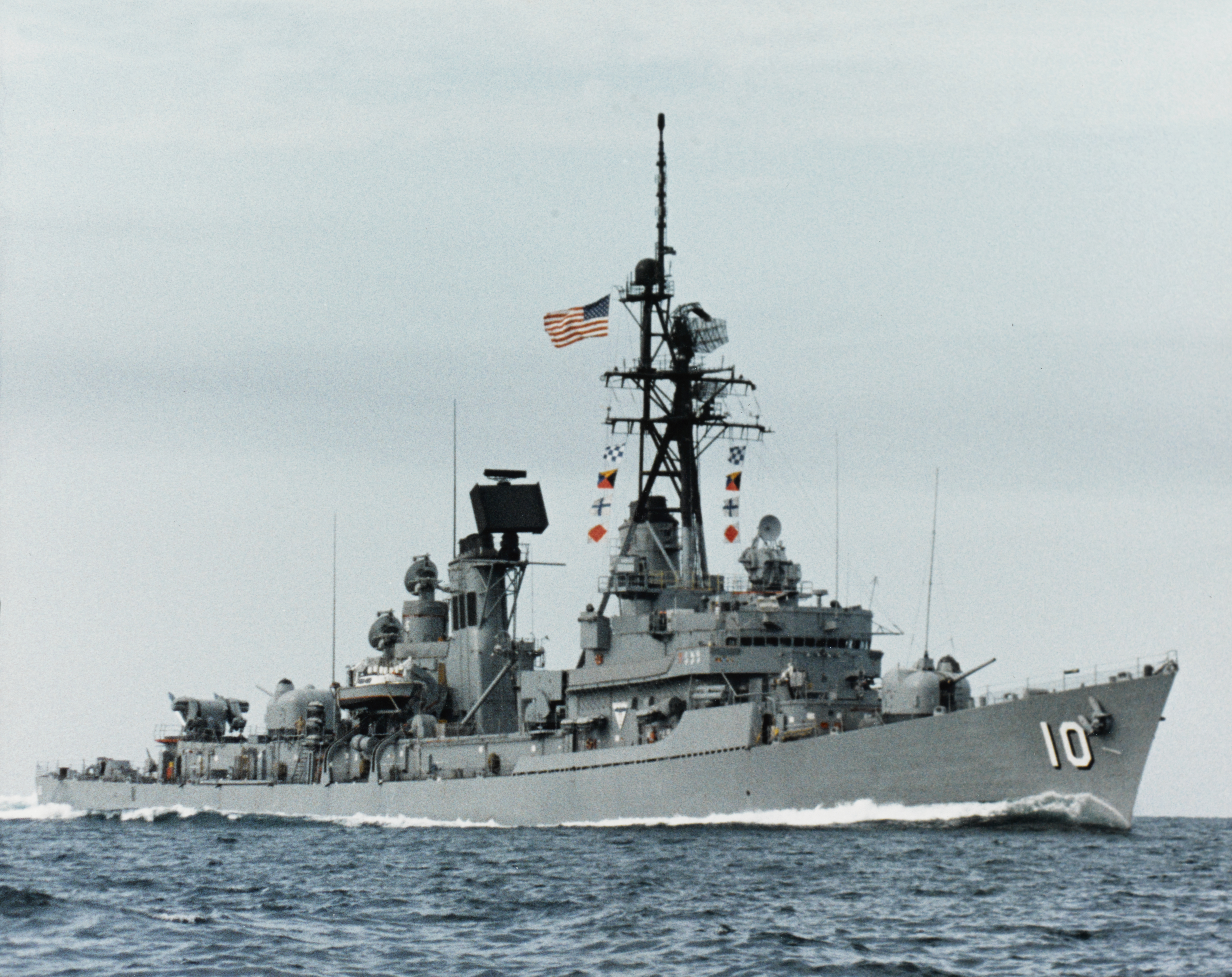 The U.S. Navy guided missile destroyer USS Sampson (DDG-10) underway at sea, circa in 1988-1989.